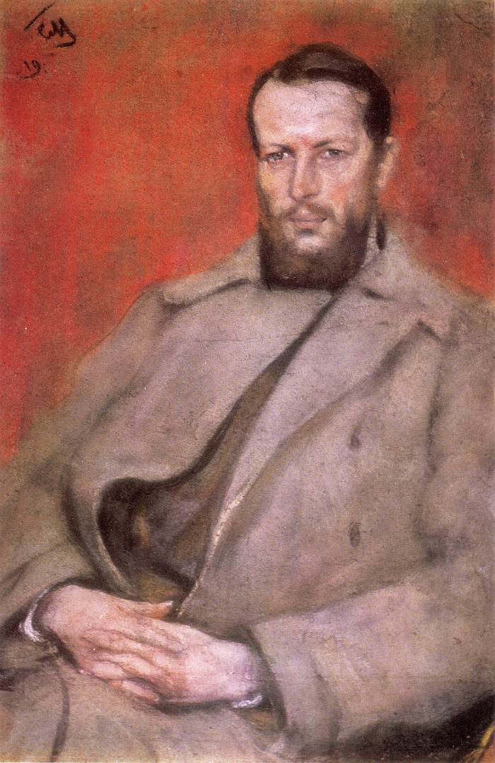 Portrait of N. D. Vinogradov, architect